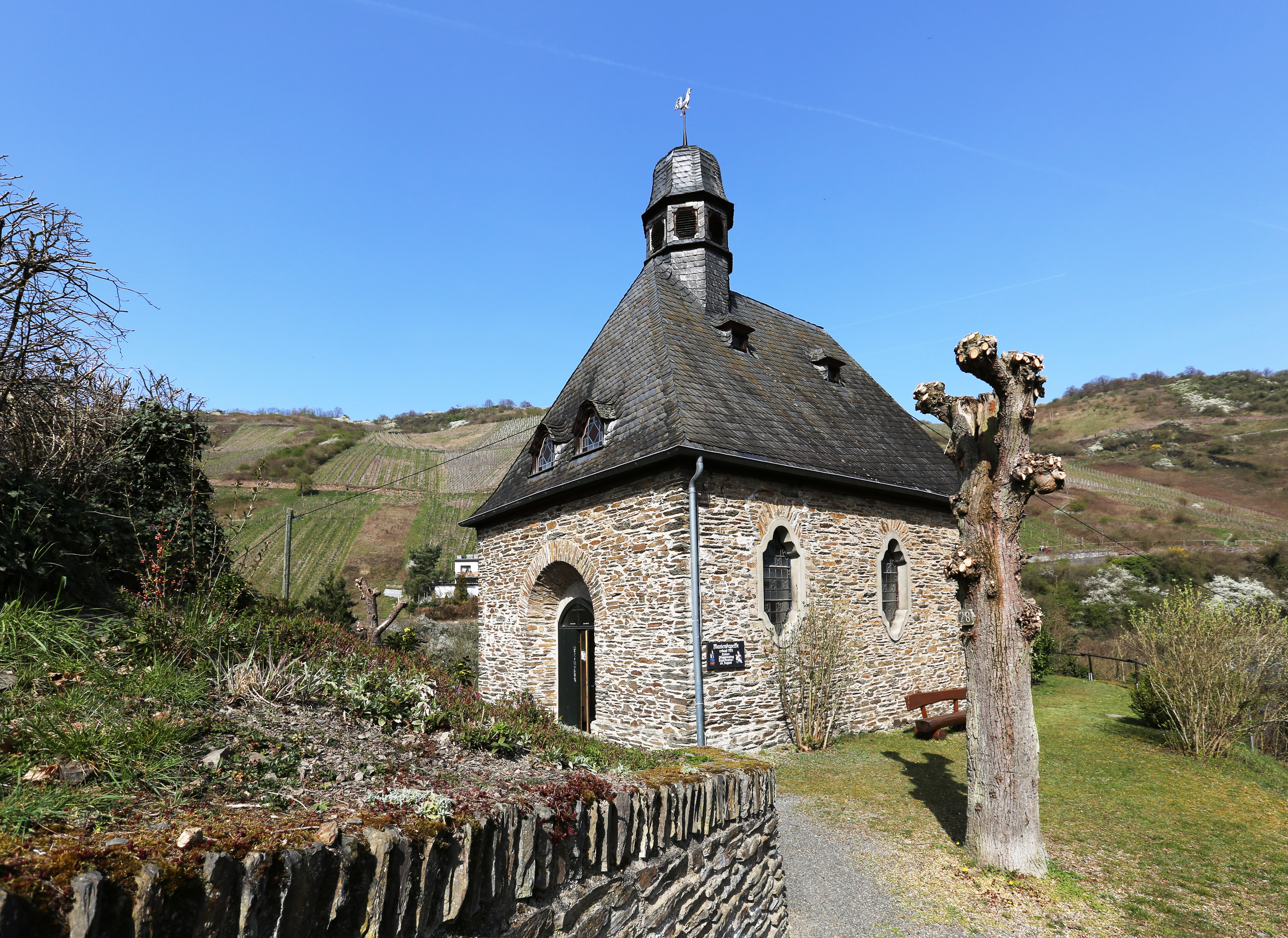 Chappel Our Lady of Sorrows, Roman Catholic Church (branch church) – Filialkirche zur Schmerzhaften Muttergottes – Am Kapellenberg, quarrystone aisleless church built 1923–1925. Engehöll (Oberwesel), Rhineland-Palatinate, Germany